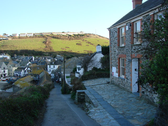 Roscarrock Hill, Port Isaac The first house on the right is Fern Cottage, made famous as the house of Doc Martin, in the TV series of the same name.